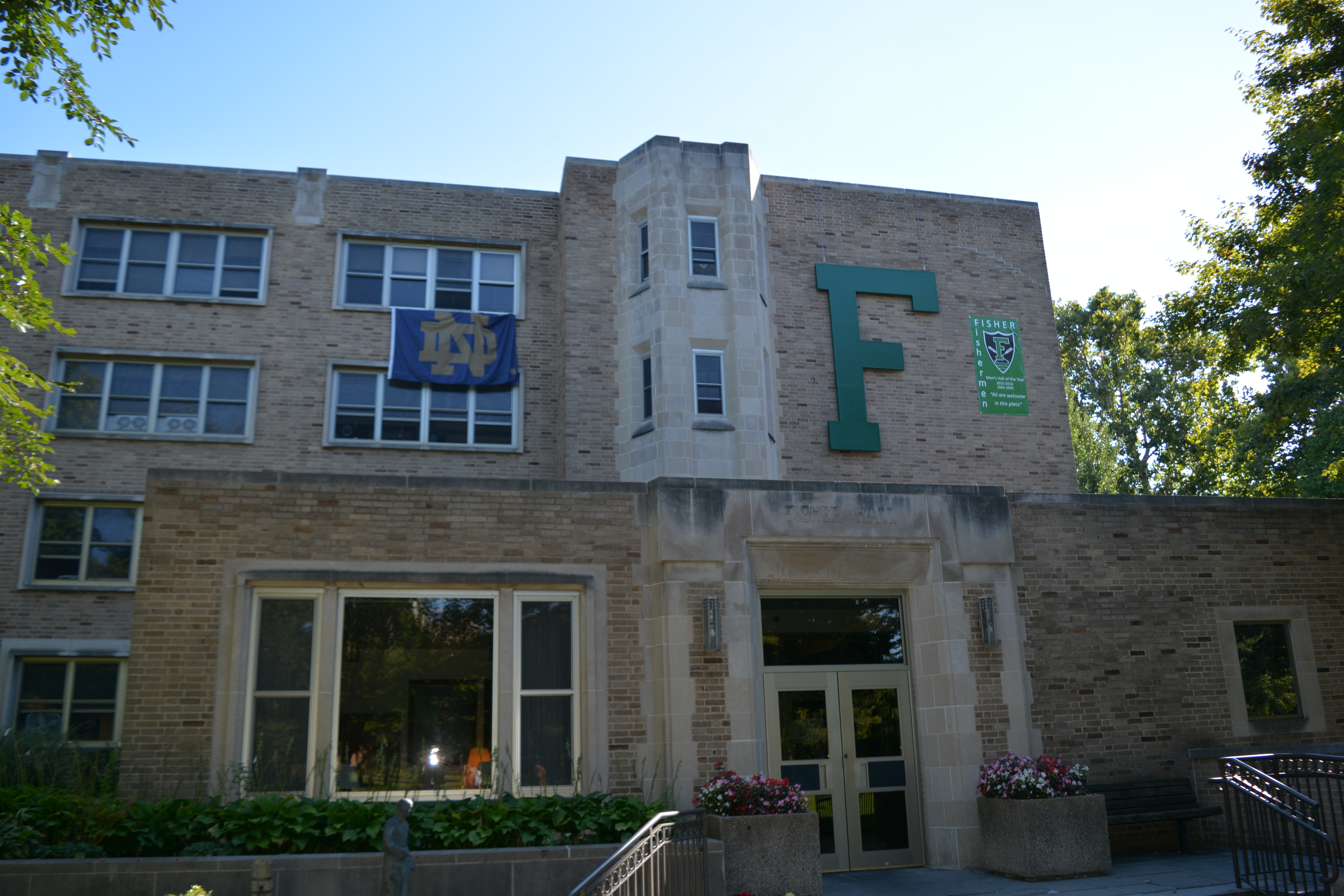 Campus of the University of Notre Dame